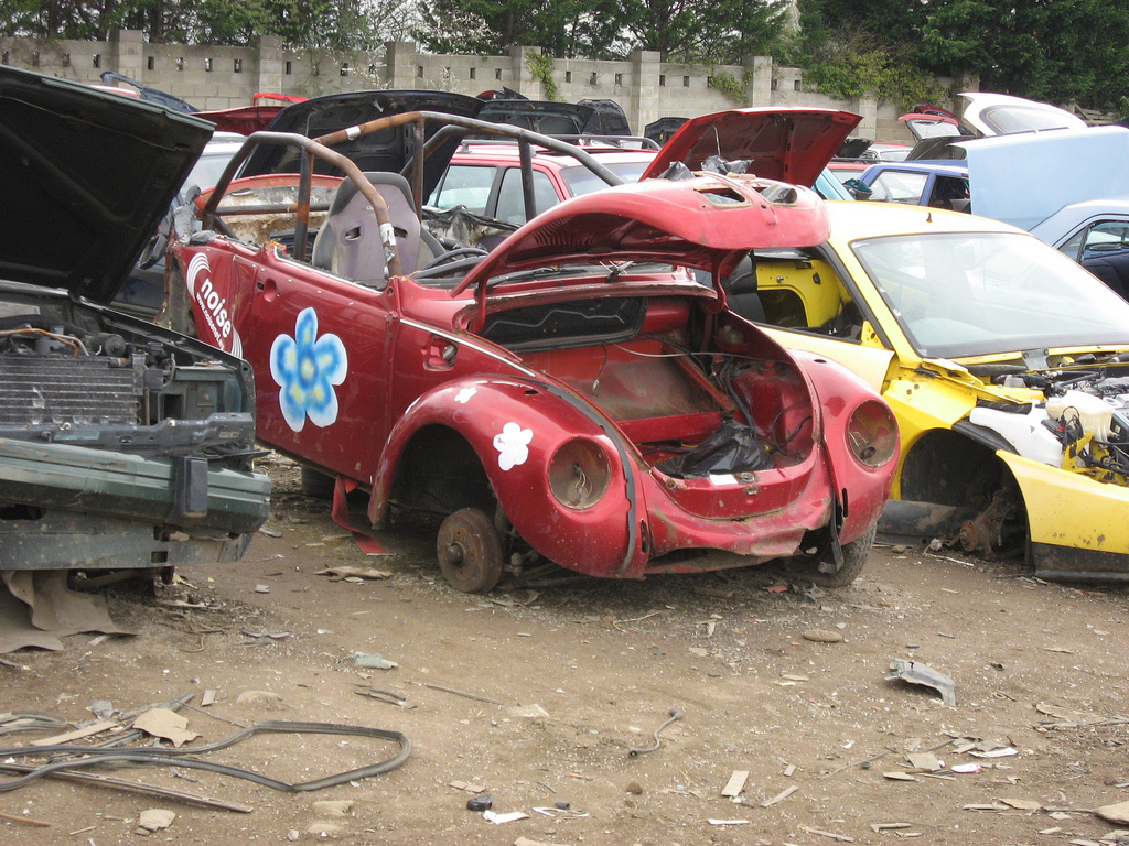 scrapyard challenge vw beetle built by the green goddesses